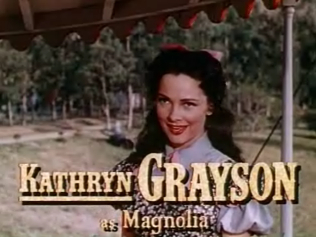 Cropped screenshot of Kathryn Grayson from the trailer for the film Show Boat.